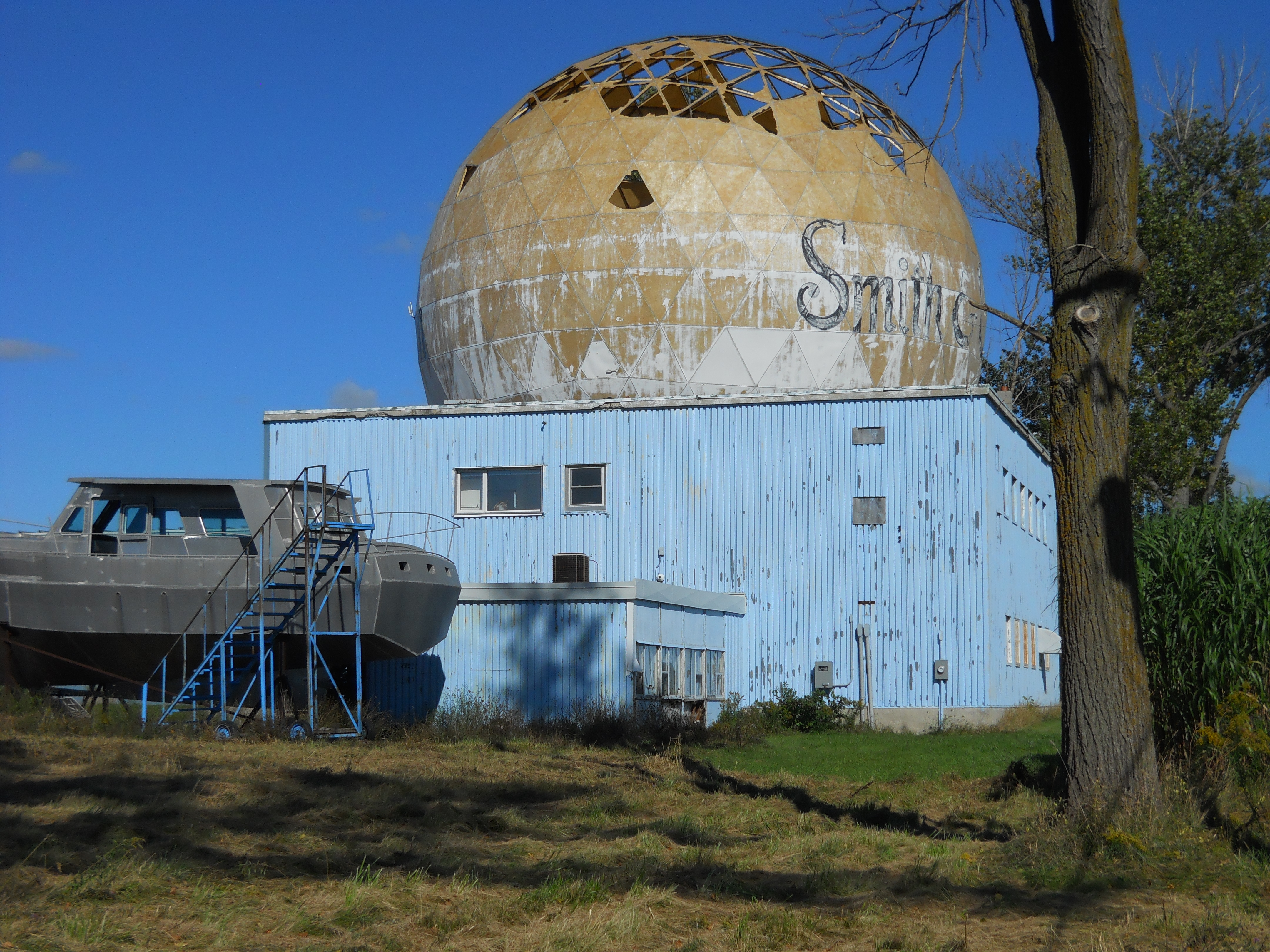 The abandoned radar building from CFB Clinton. It's located on Vanastra Road about halfway along the length of the former base area.